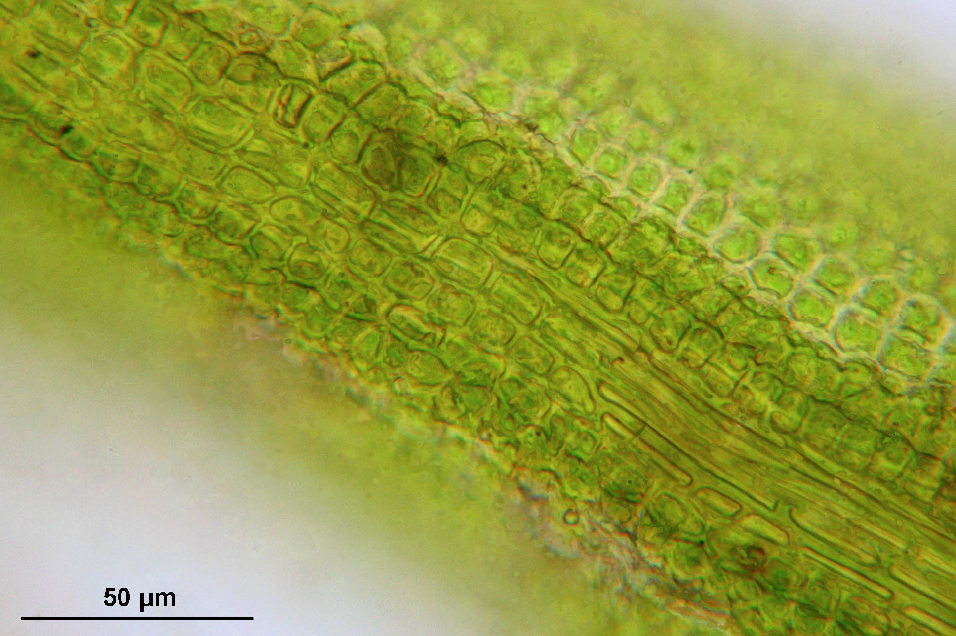 Tortella bambergeri